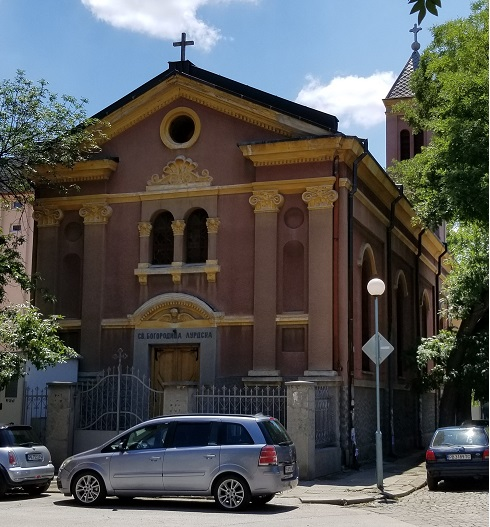 Church Our Lady of Lourdes, Plovdiv